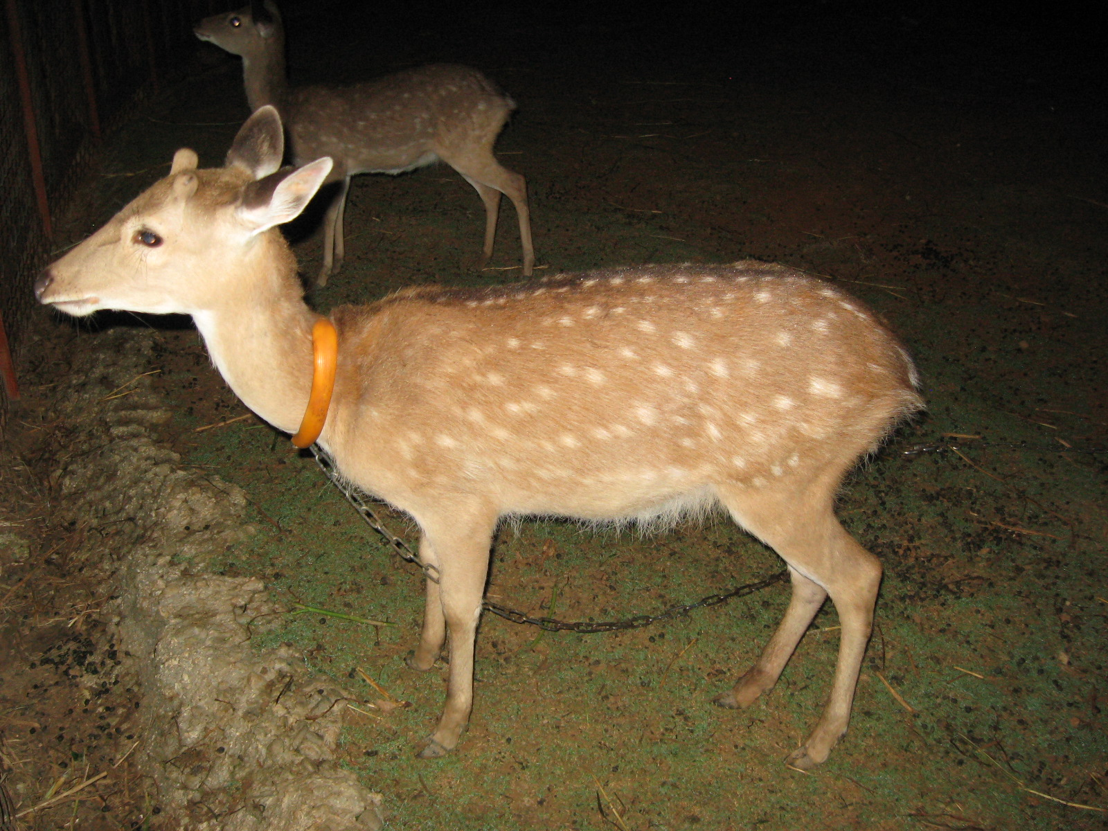 Young sika deer, one of many bred on Green Island, Taiwan, where wild specimen are occasionally sighted.